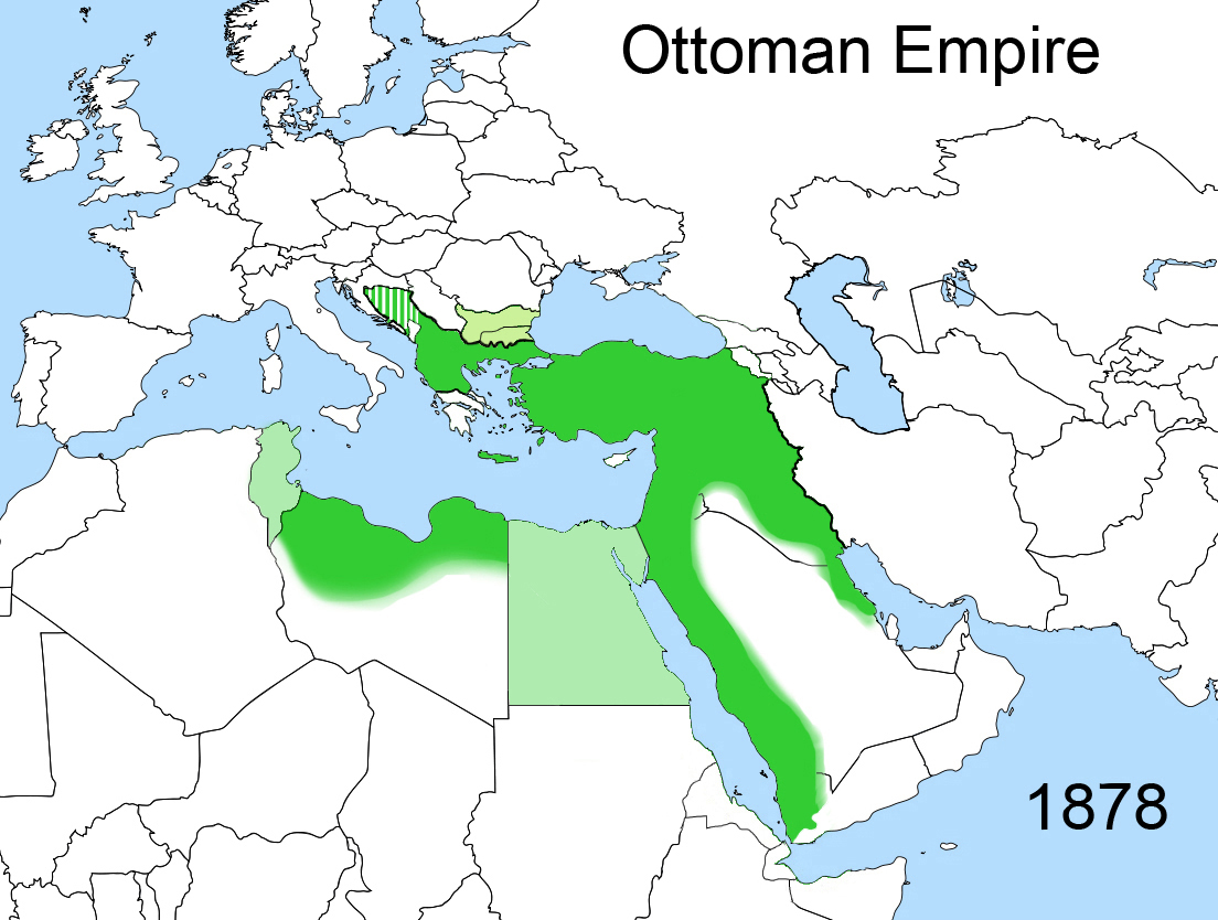 Territorial changes of the Ottoman Empire